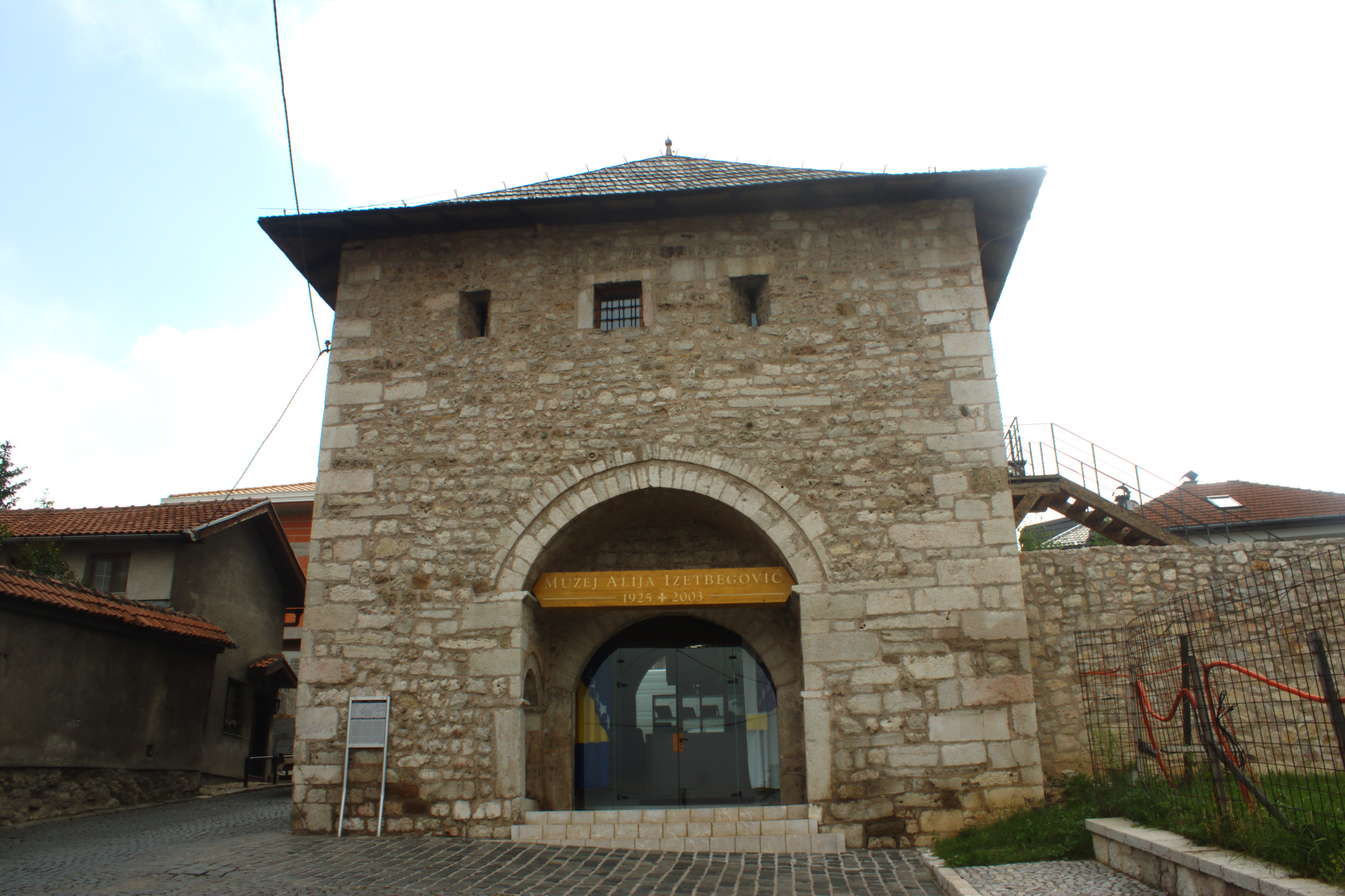 Museum of Alija Izetbegović in Sarajevo, located in one of the historic town gates, BiH